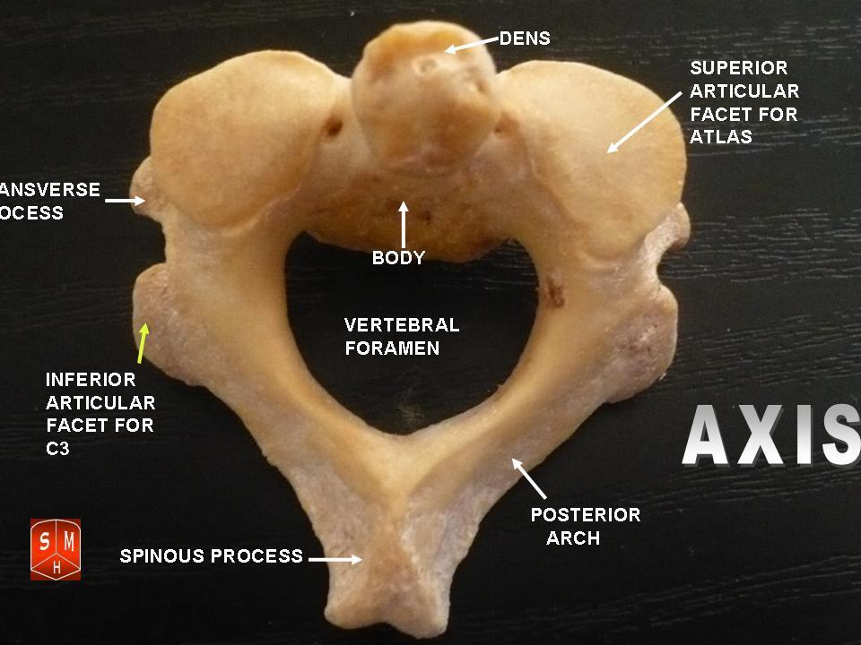 Axis vertebrae